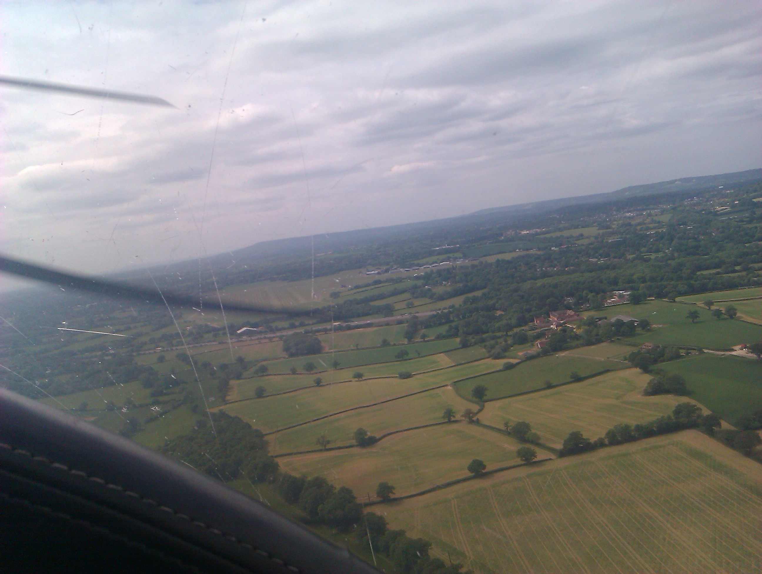 Coming in to land at EGKR in a Piper Cherokee